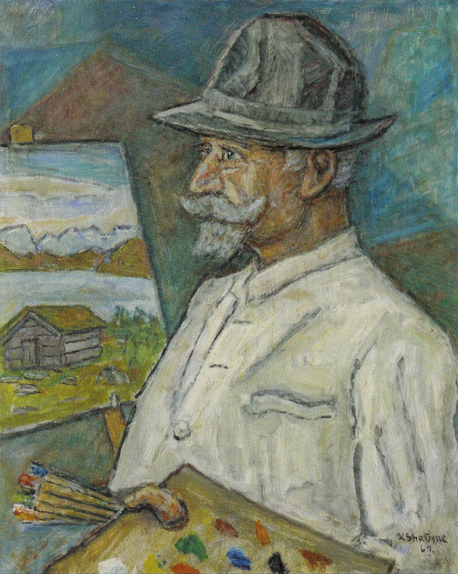 Portrait of Karl Straume in 1967